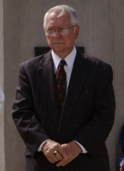 "Dignitaries attend at the 2002 Congressional Medal of Honor Society Convention Ceremony, held at Barksdale Air Force Base (AFB), Louisiana (LA). Pictured left-to-right Major, Don Mooring (USAF Retired); Mr. Keith Hightower, Mayor of Shreveport, LA; Mr. George Dement, Mayor of Bossier City, LA; and CHIEF Warrant Officer, Ron Adams (USN Retired)"